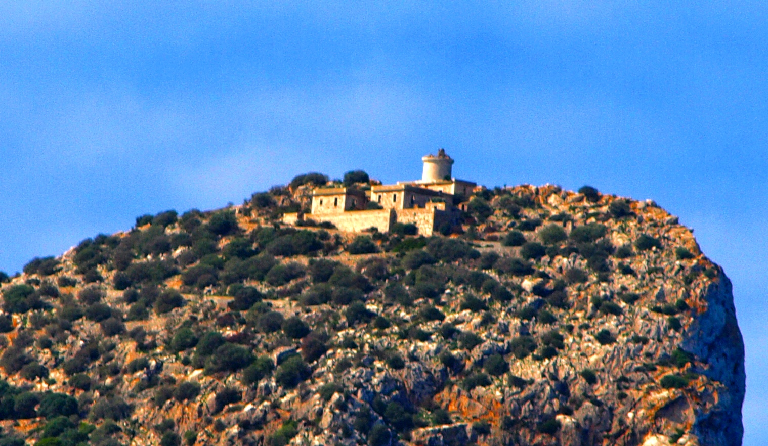 Na Popis light house Place Lloc/Place:Na Popis, Dragonera